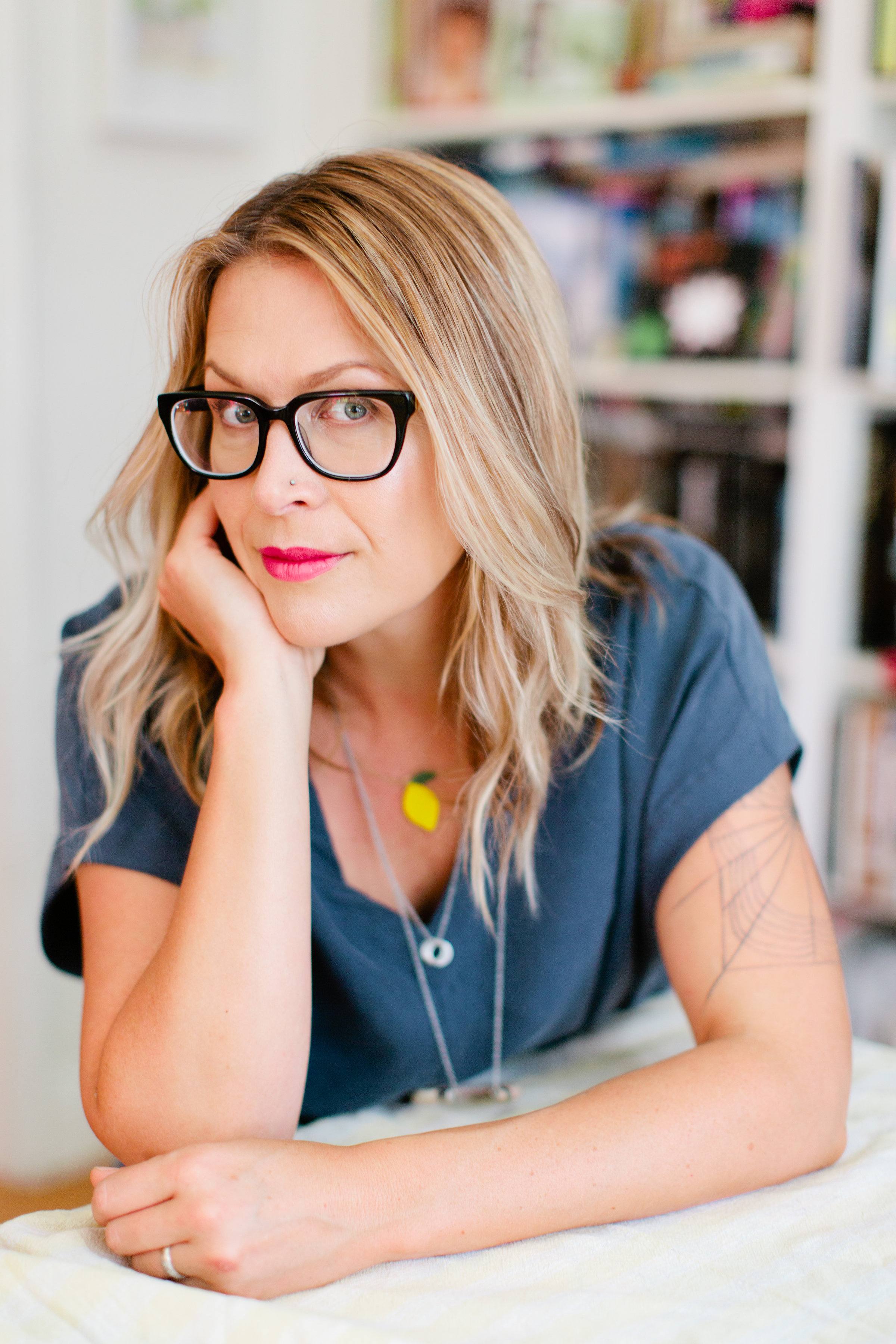 A photo of author Kate Schatz in her living room, taken by photographer Meg Perotti